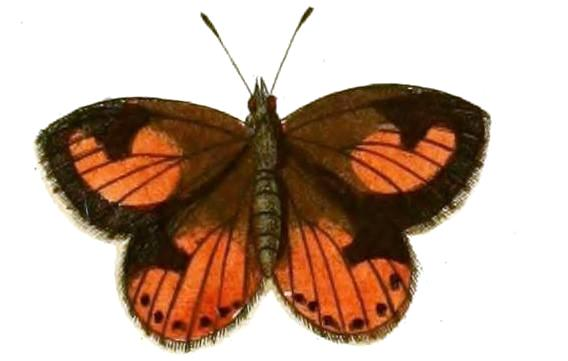 Plate CCXLIII E, F: "(Papilio) Piërus" ( = Aloeides pierus (Cramer, [1779]), iconotype?), see Funet. Photos at Biodiversity Explorer, RSA.